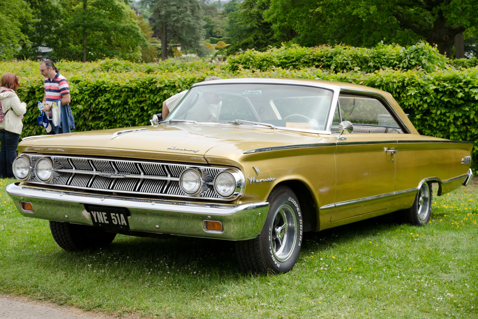 Trentham Gardens Classic Car Show 16/06/2013